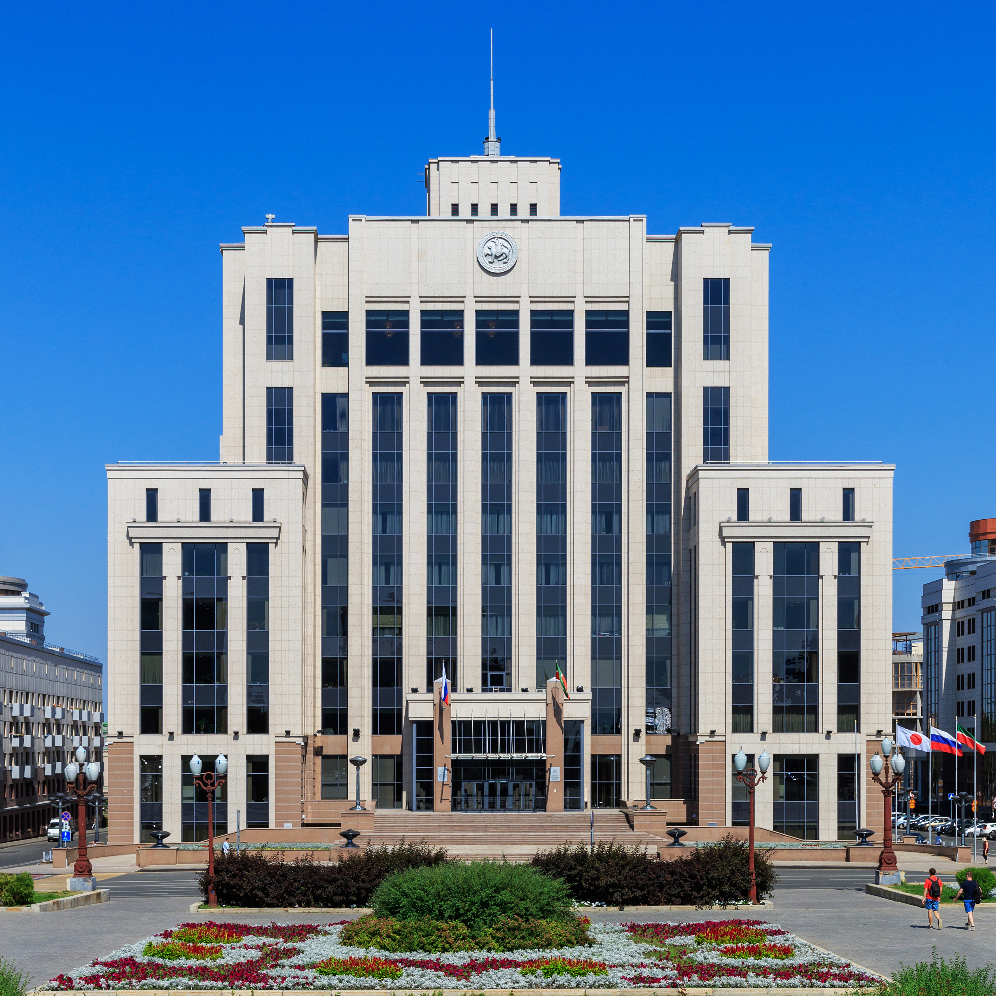 House of the Government of Tatarstan in Kazan, Russia